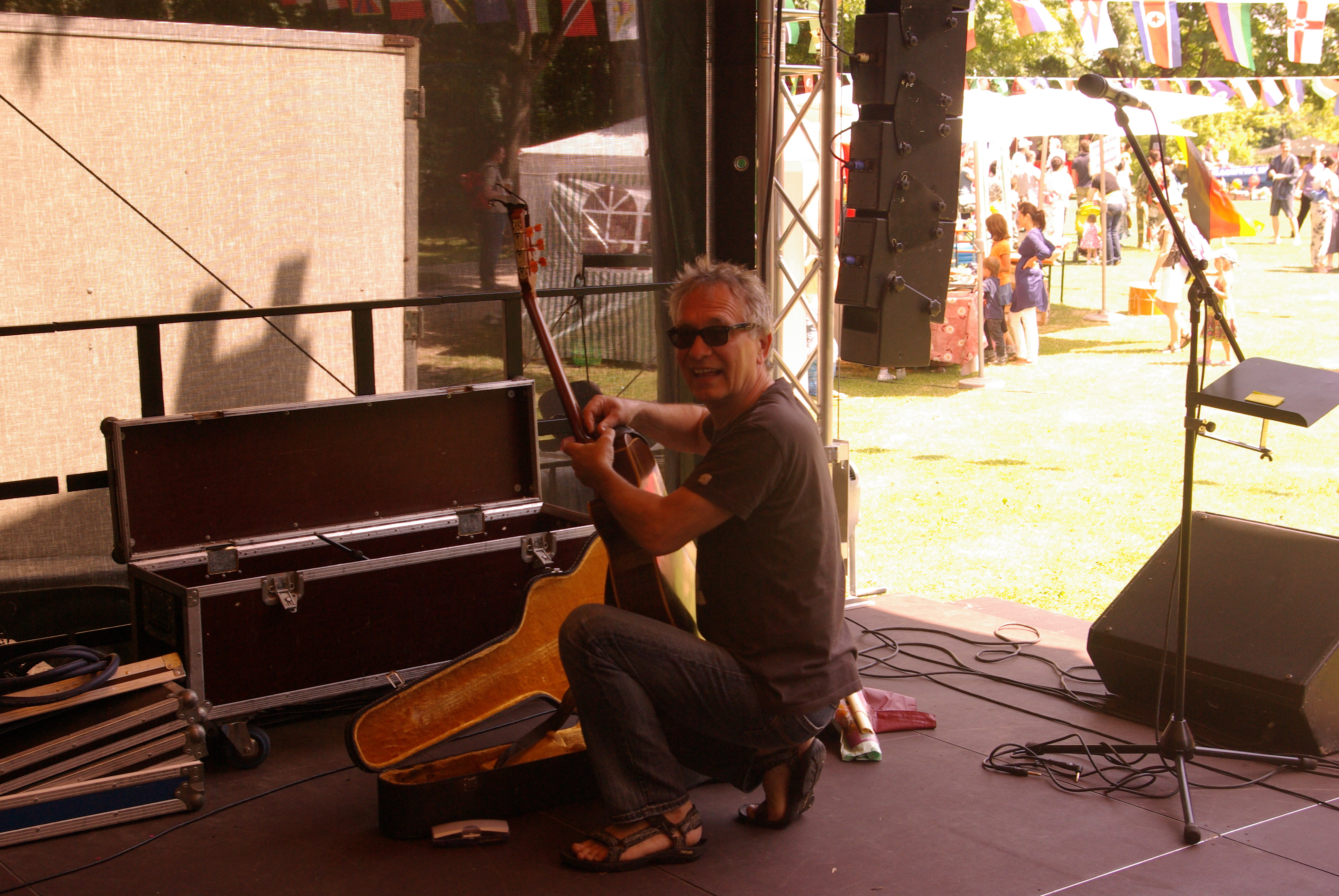 Pit Budde Backstage